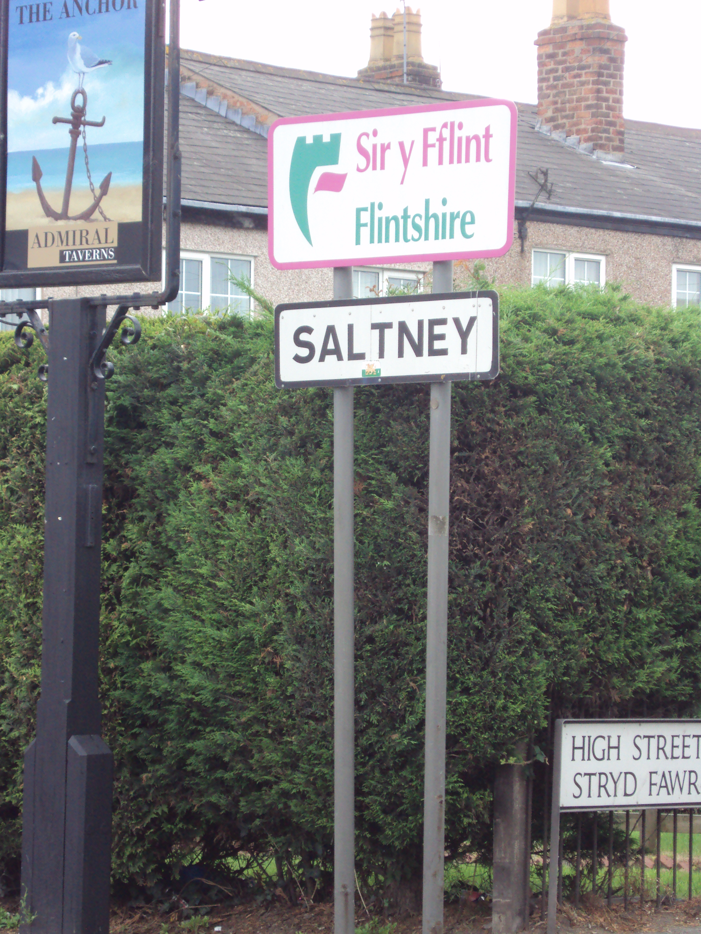 Sign on A5104 High Street on entering Saltney, Flintshire at the English/Welsh border. Outside The Anchor pub.